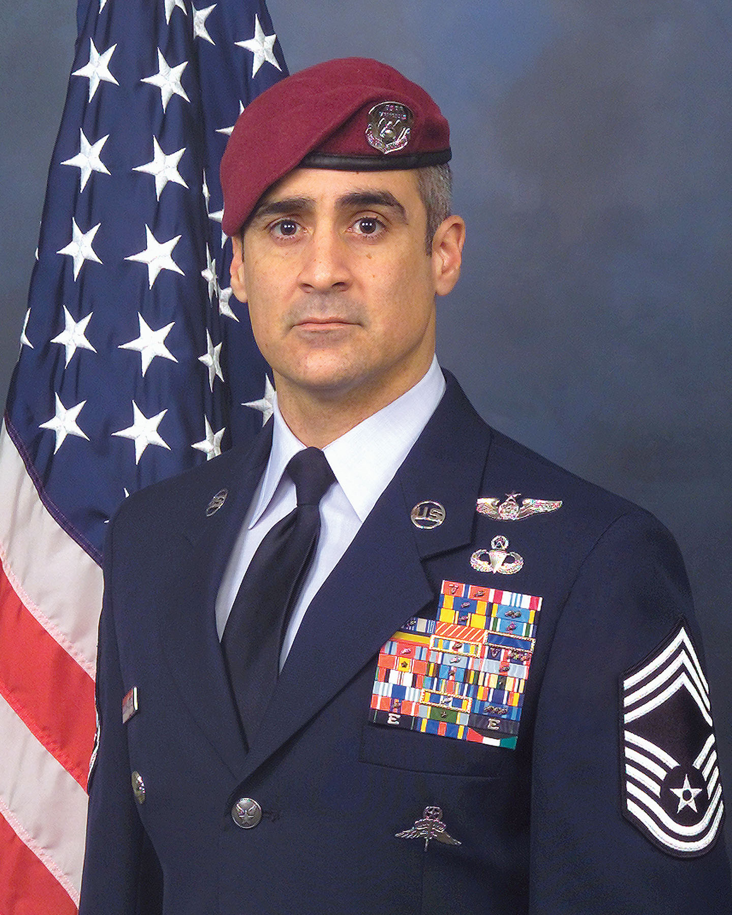 Chief Master Sgt. Ramon Colon-Lopez will present "Lessons learned on the Global War on Terror, from the Perspective of a Special Tactics Pararescueman" at 7:30 p.m. on March 31, 2010. (Photo provided)